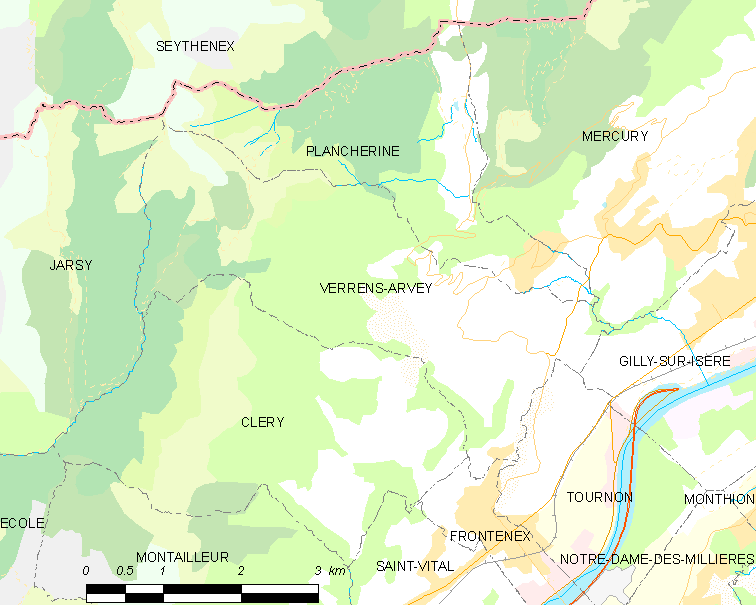 Map of French municipality Verrens-Arvey